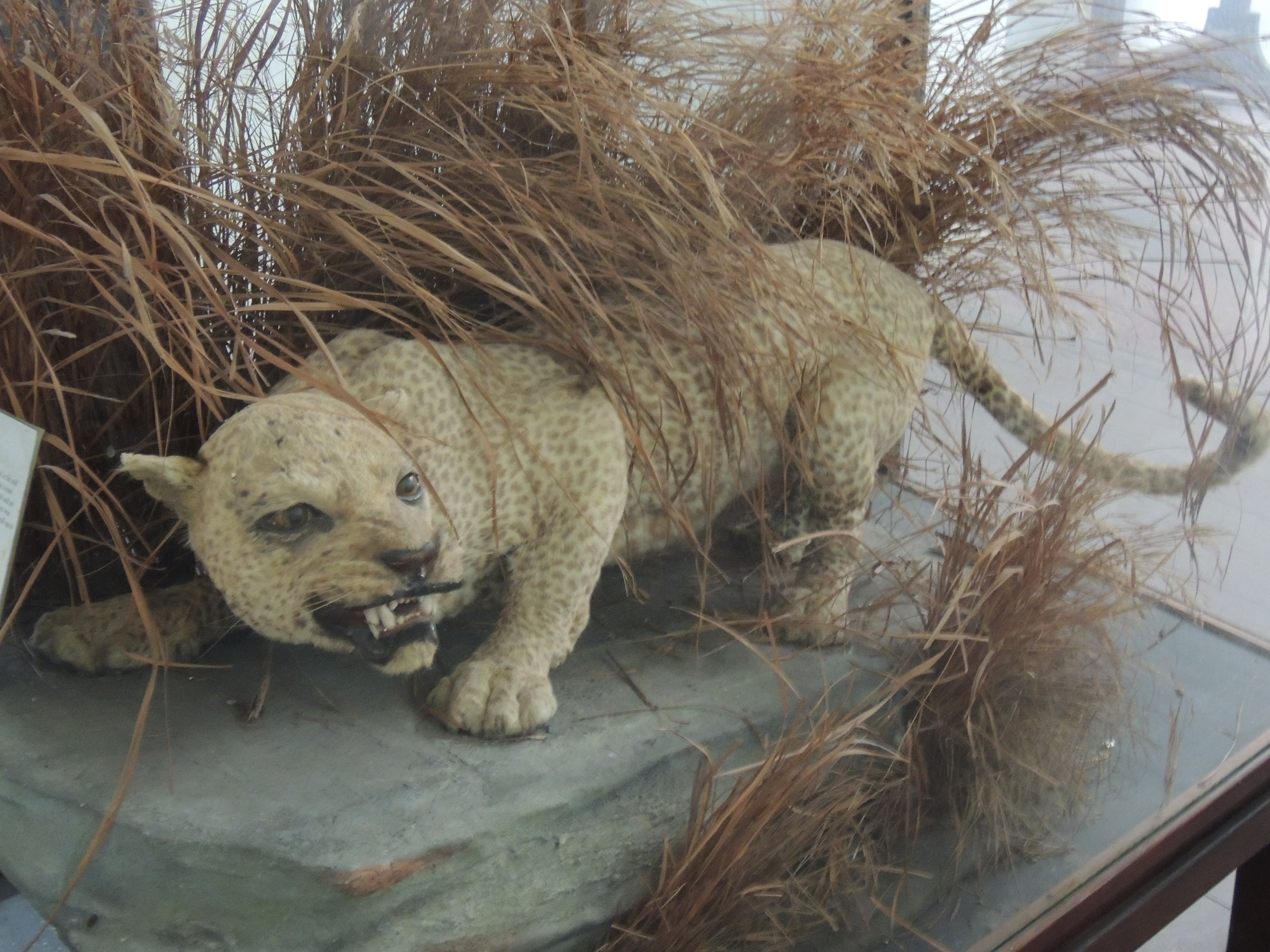 The Zanzibar Leopard (Panthera pardus adersi) in the Zanzibar Natural History Museum in Zanzibar City (or Zanzibar Town), Zanzibar (Tanzania). Now most likely extinct.